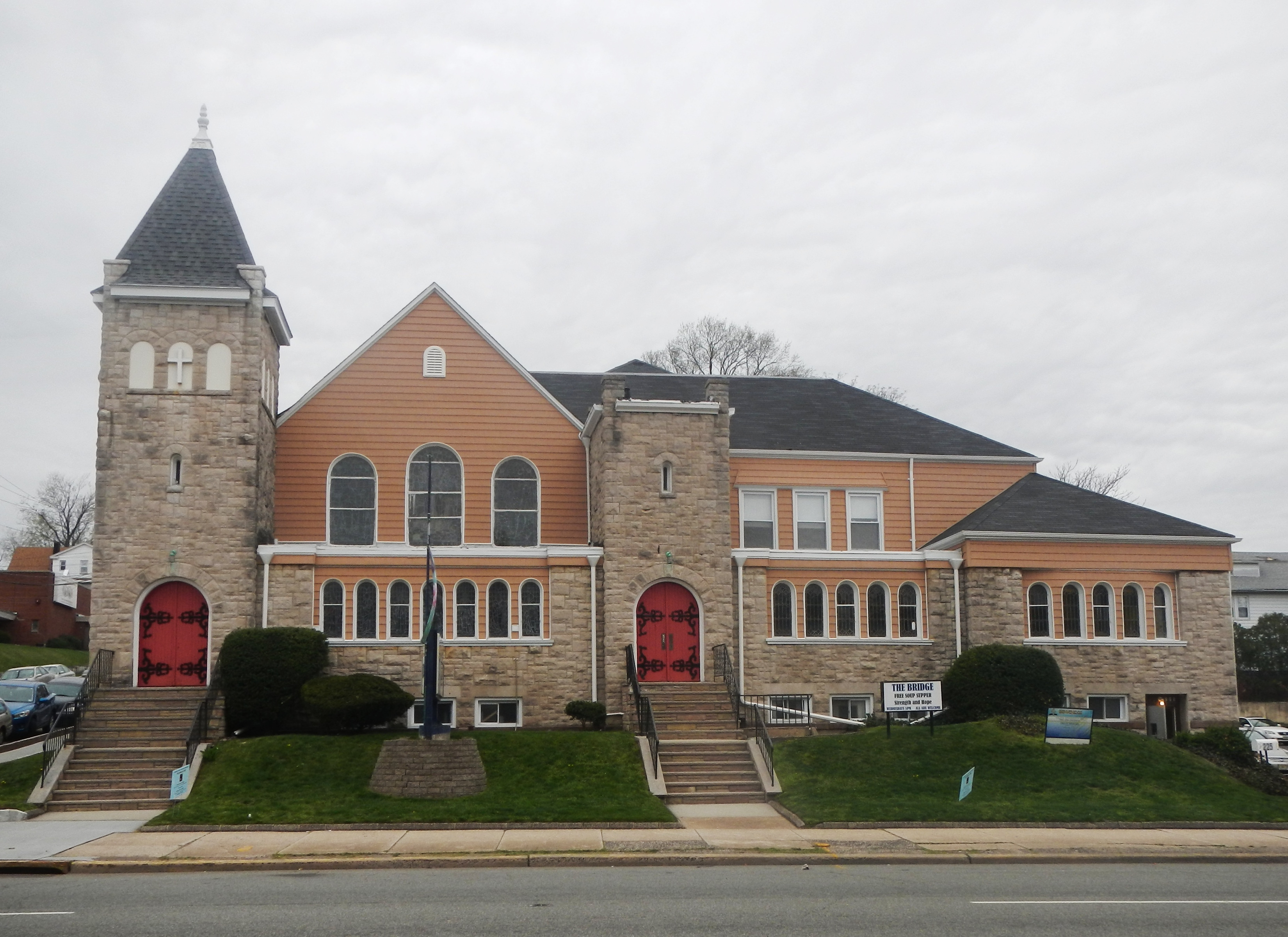 Looking west at church on a cloudy afternoon.